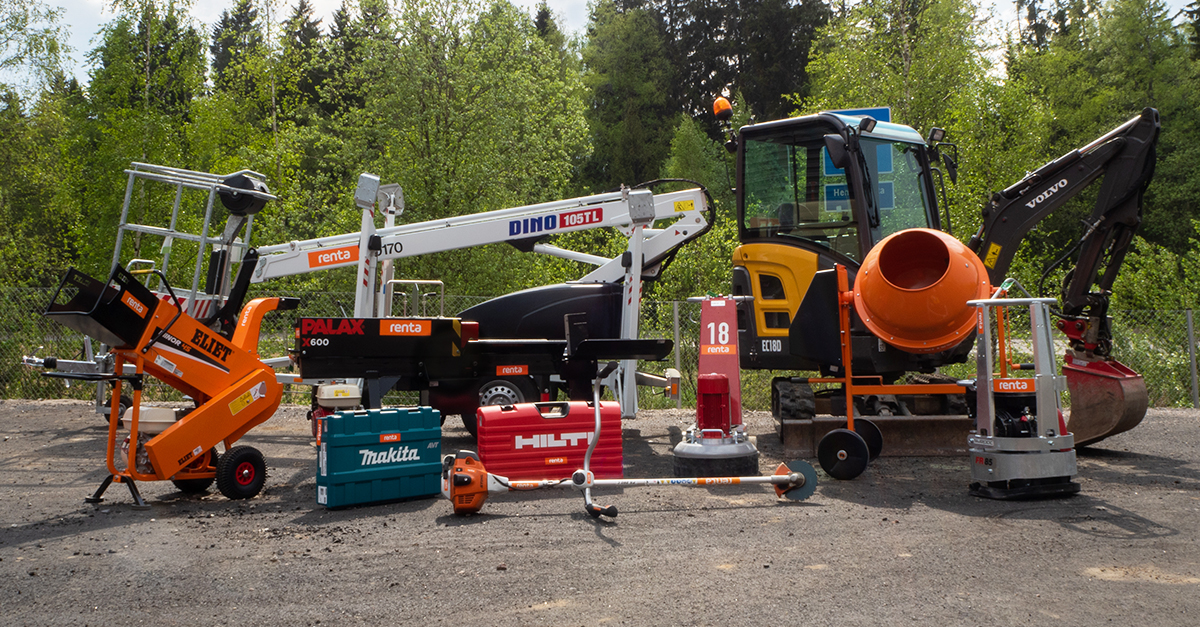 Some of the tools from Renta's selection